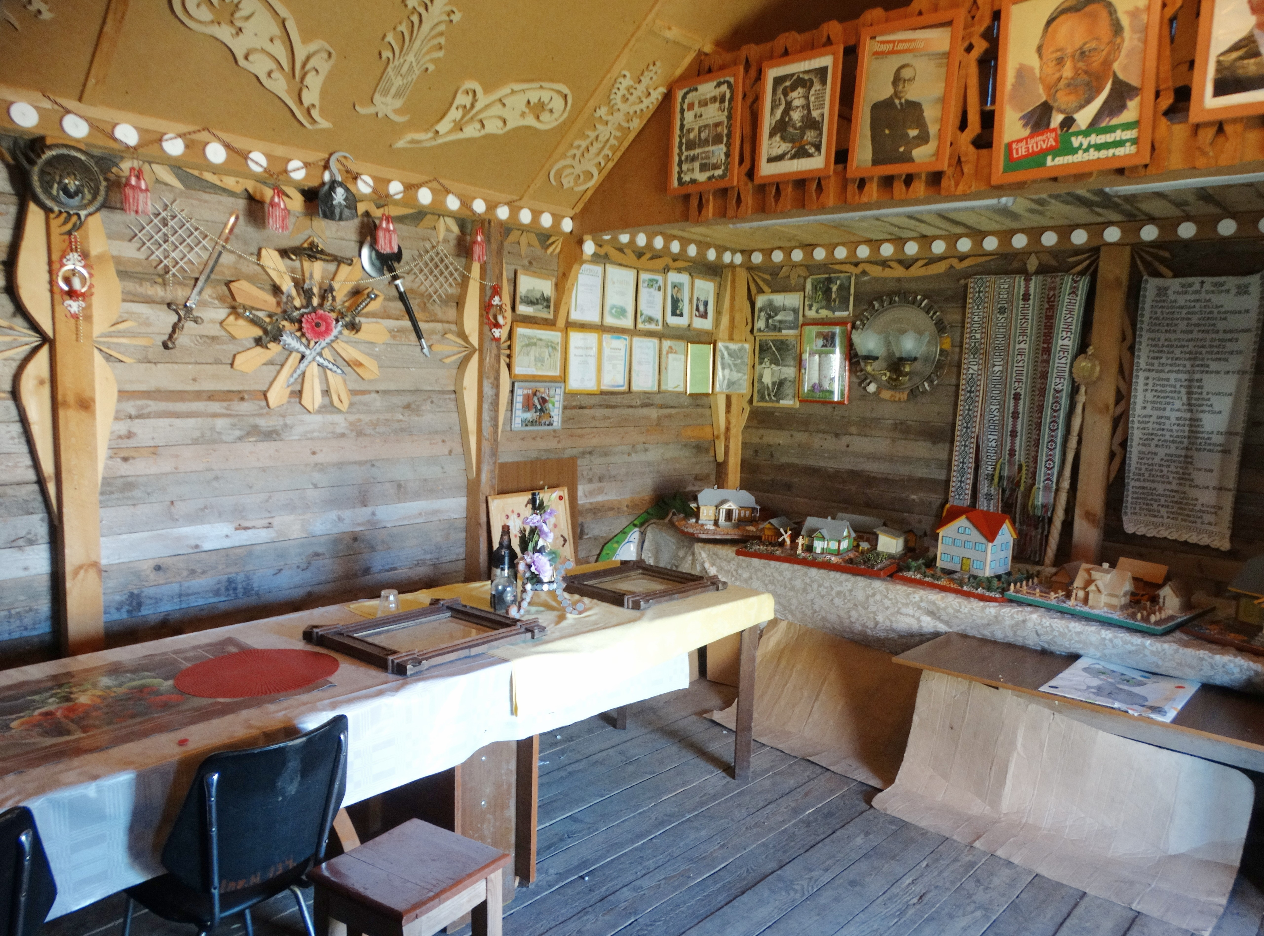 Meldučiai, Anykščiai district, Lithuania